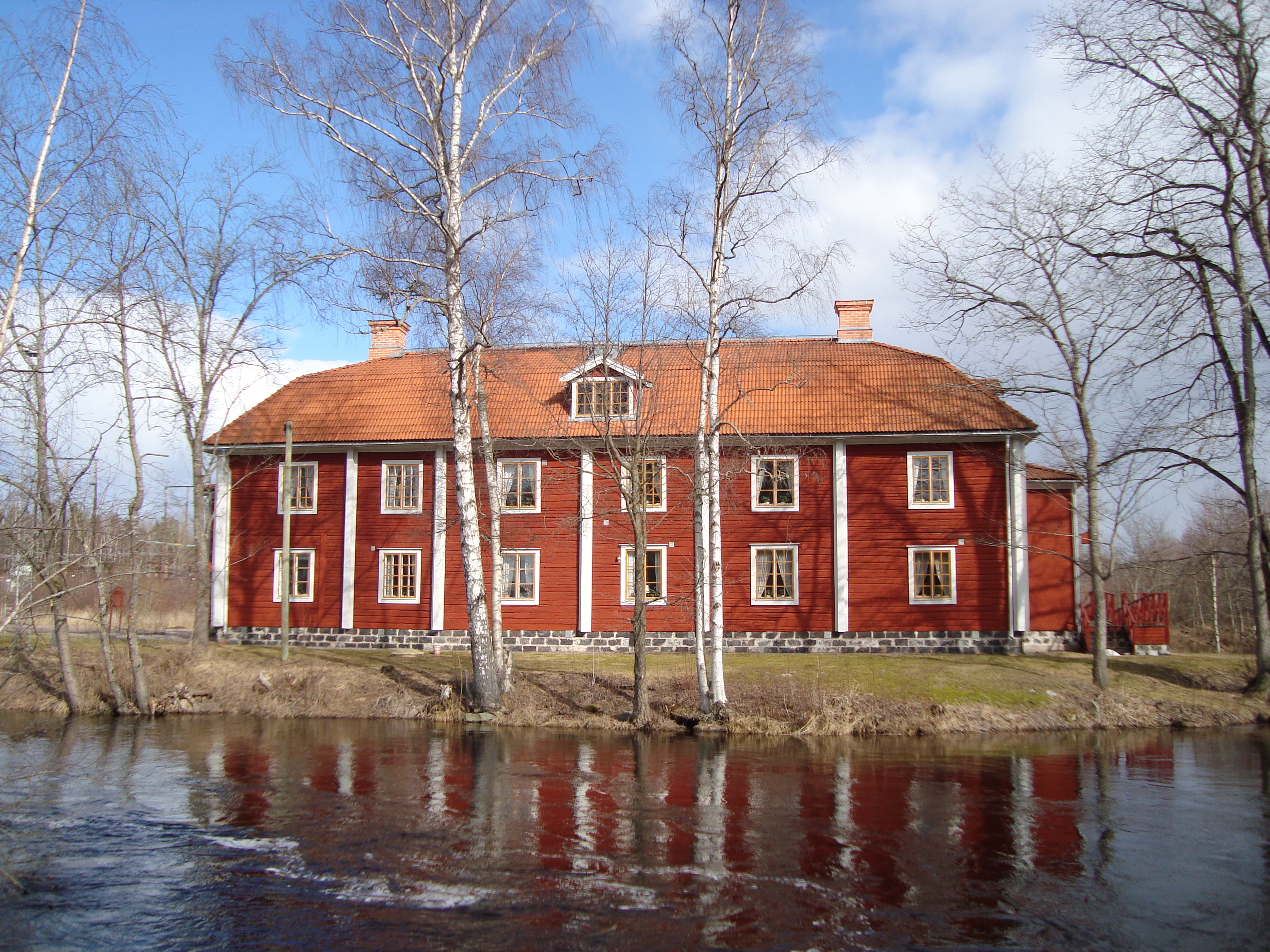 "Stora fabriken" (former paper mill, later workers housing) Grycksbo paper mill, Falun Municipality, Sweden